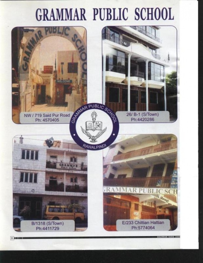 Four branches of grammar public school.